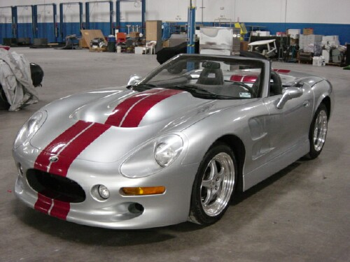 Shelby Series 1 Picture taken by Kostas22 on 09/27/07. No copyright. Distribution, editing, etc. of picture is allowed.